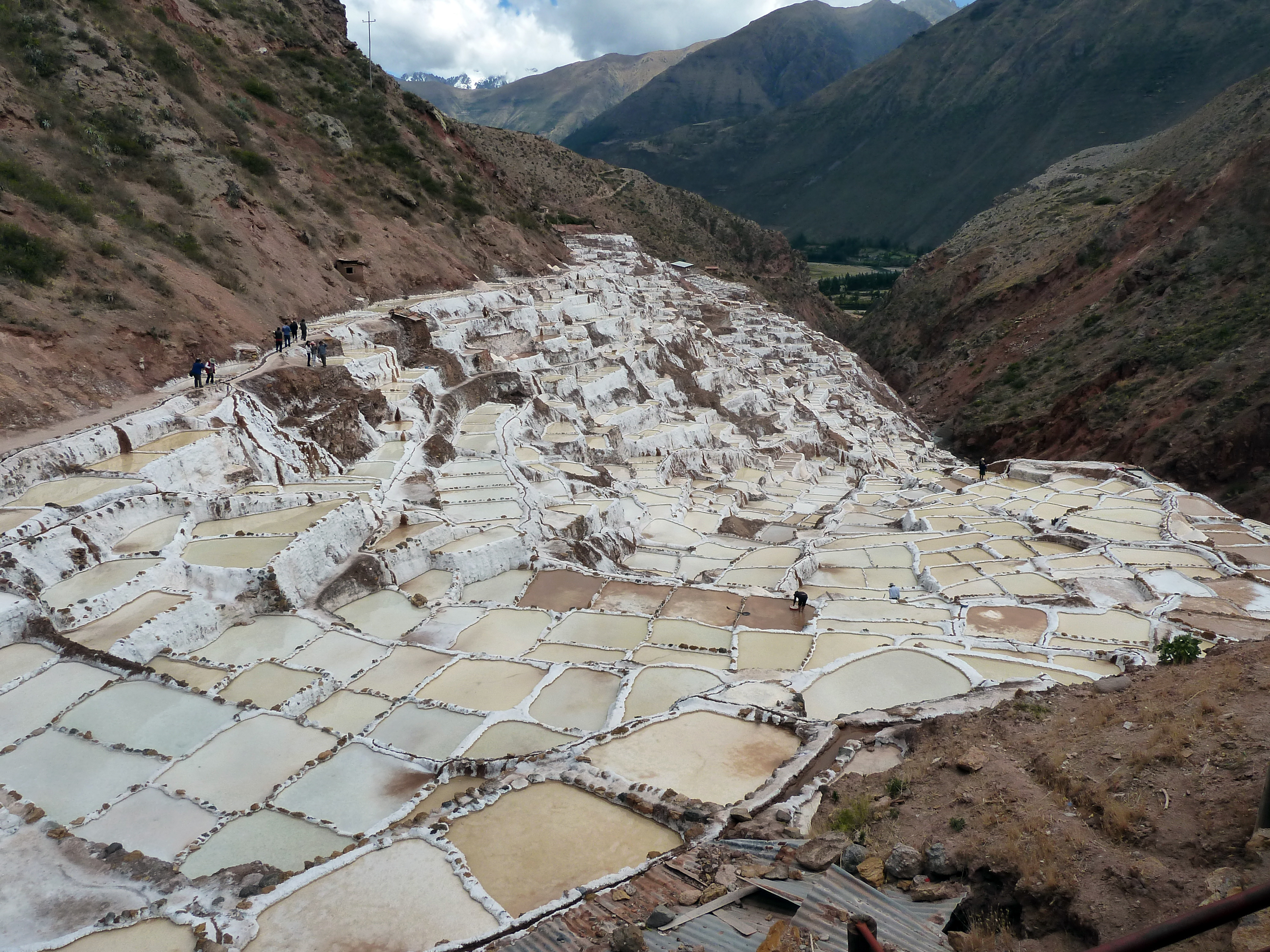 Salinas de Maras, Peru.